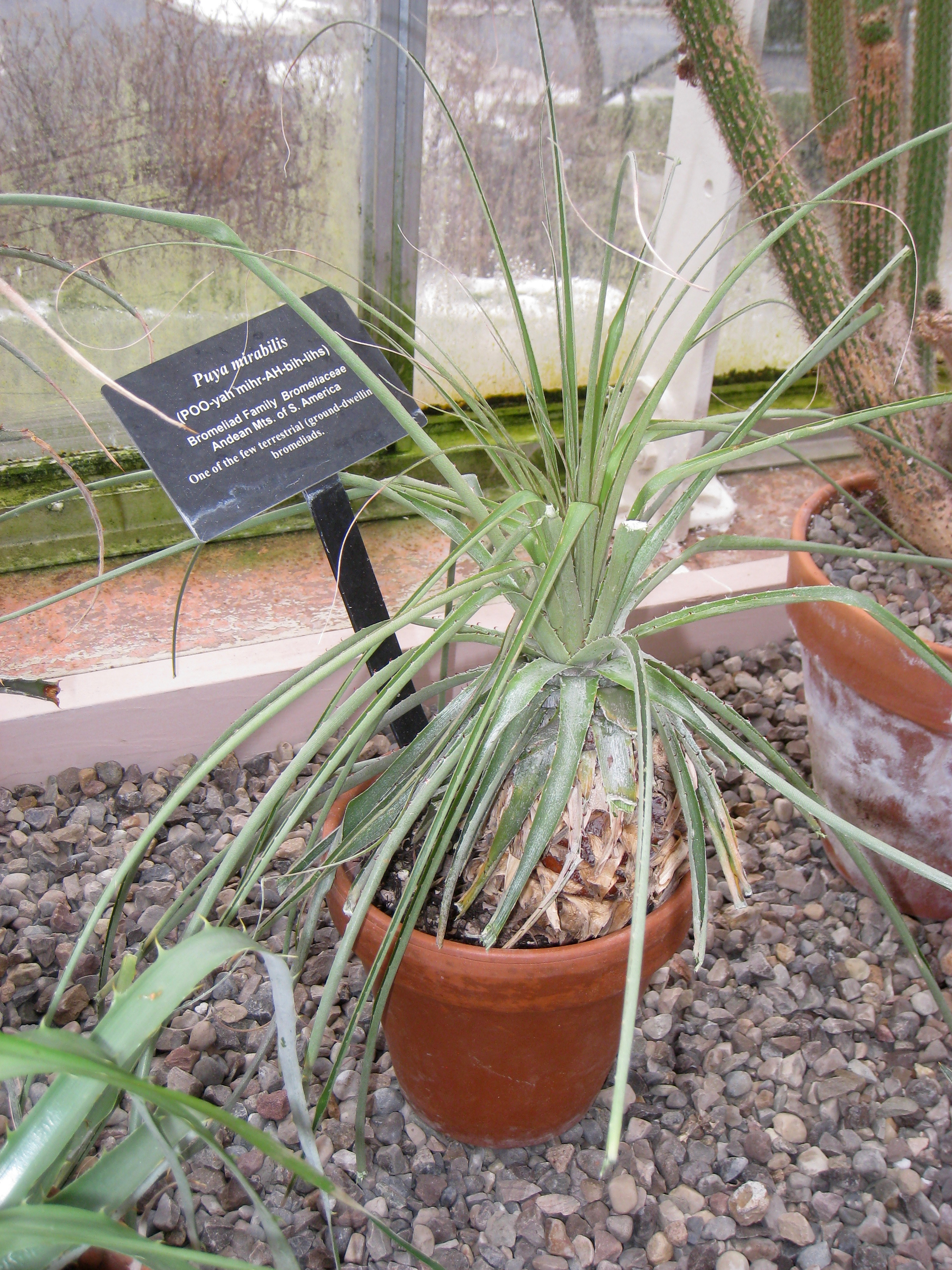 Puya mirabilis specimen in the Buffalo and Erie Country Botanical Gardens, Buffalo, New York, USA.